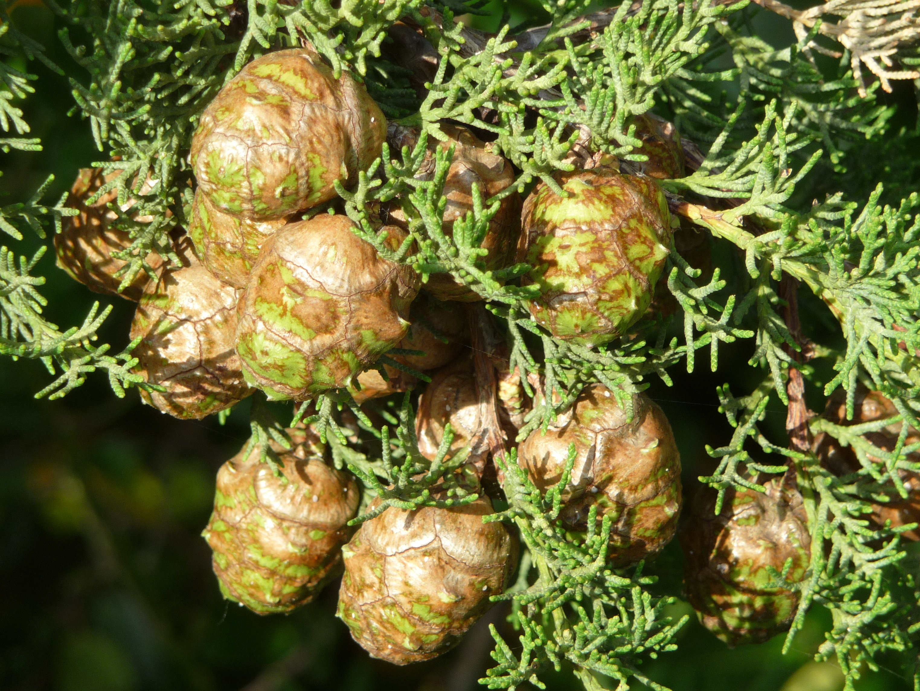 Cones of Cupressus sempervirens, near Livorno, Tuscany, Italy.